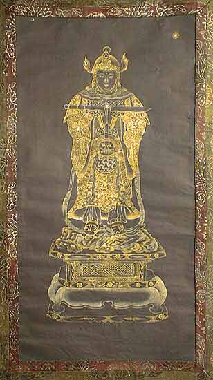 An image of Ida-Ten